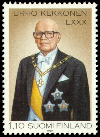 Postage stamp depicting the Finnish president Urho Kekkonen at age 80